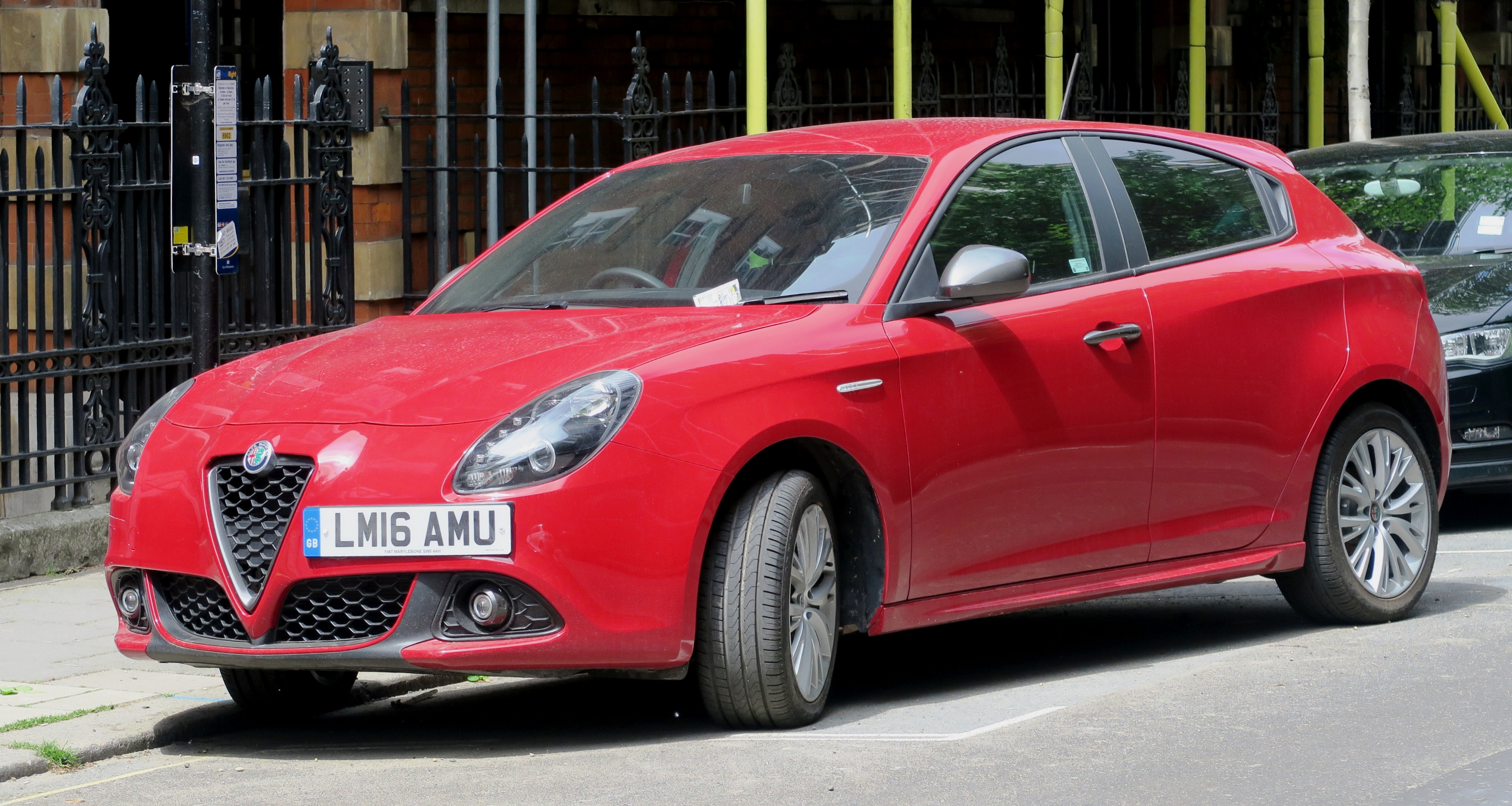 Alfa Romeo Giulietta (940) registered April 2016 1368cc